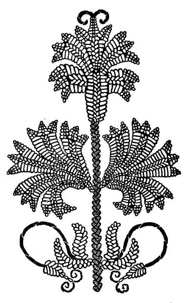 Drawing of Cretan embroidery showing use of Cretan stitch